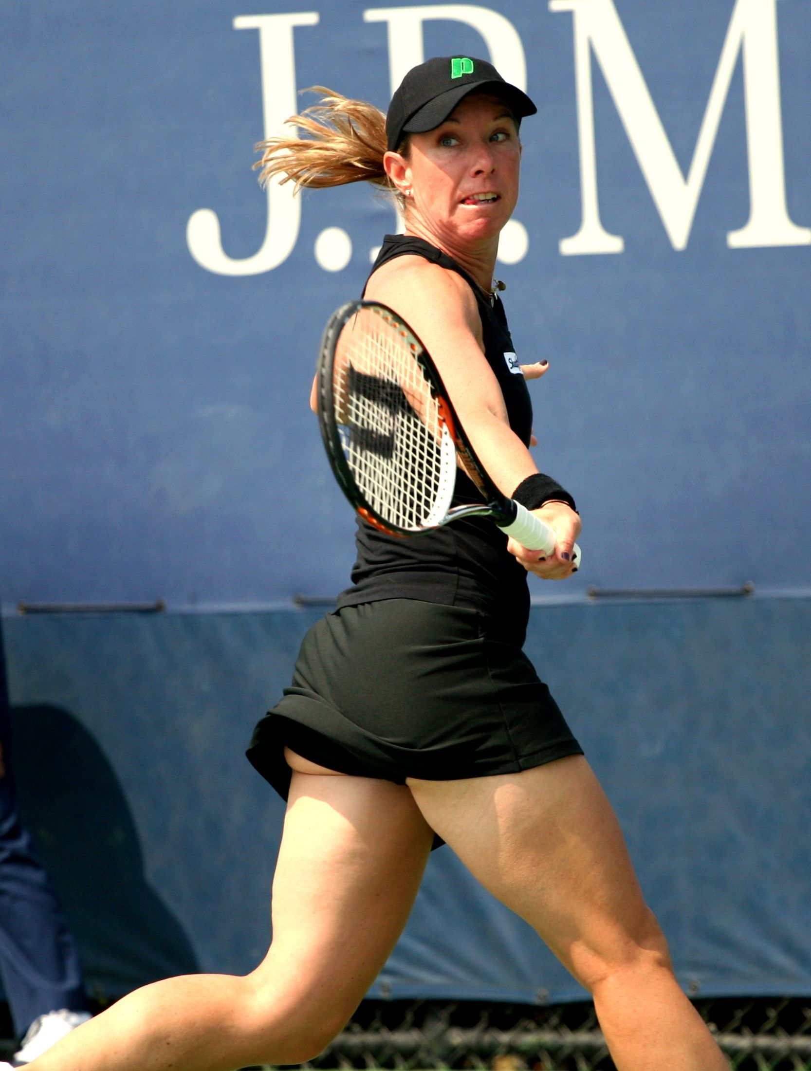 U.S. Open, Saturday, Sept. 3, 2011